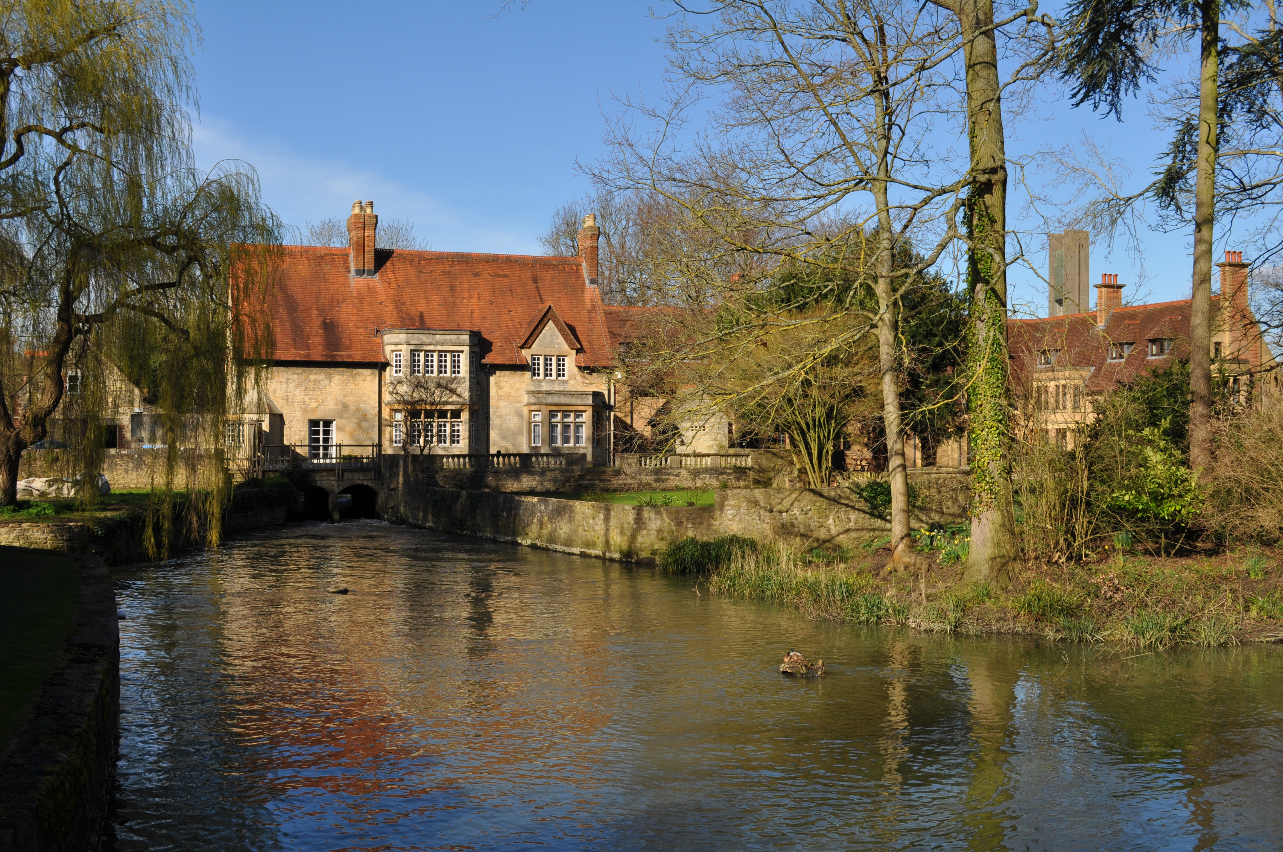 Holywell Ford in the grounds of Magdalen College, Oxford. It is used for graduate student accommodation. Holywell Ford house (left) was built by Clapton Crabb Rolfe in 1888 on the location of an older mill, and was acquired by Magdalen in the 1970s. Additional blocks of accommodation (right) were built in 1994-5 by RH Partnership Ltd.